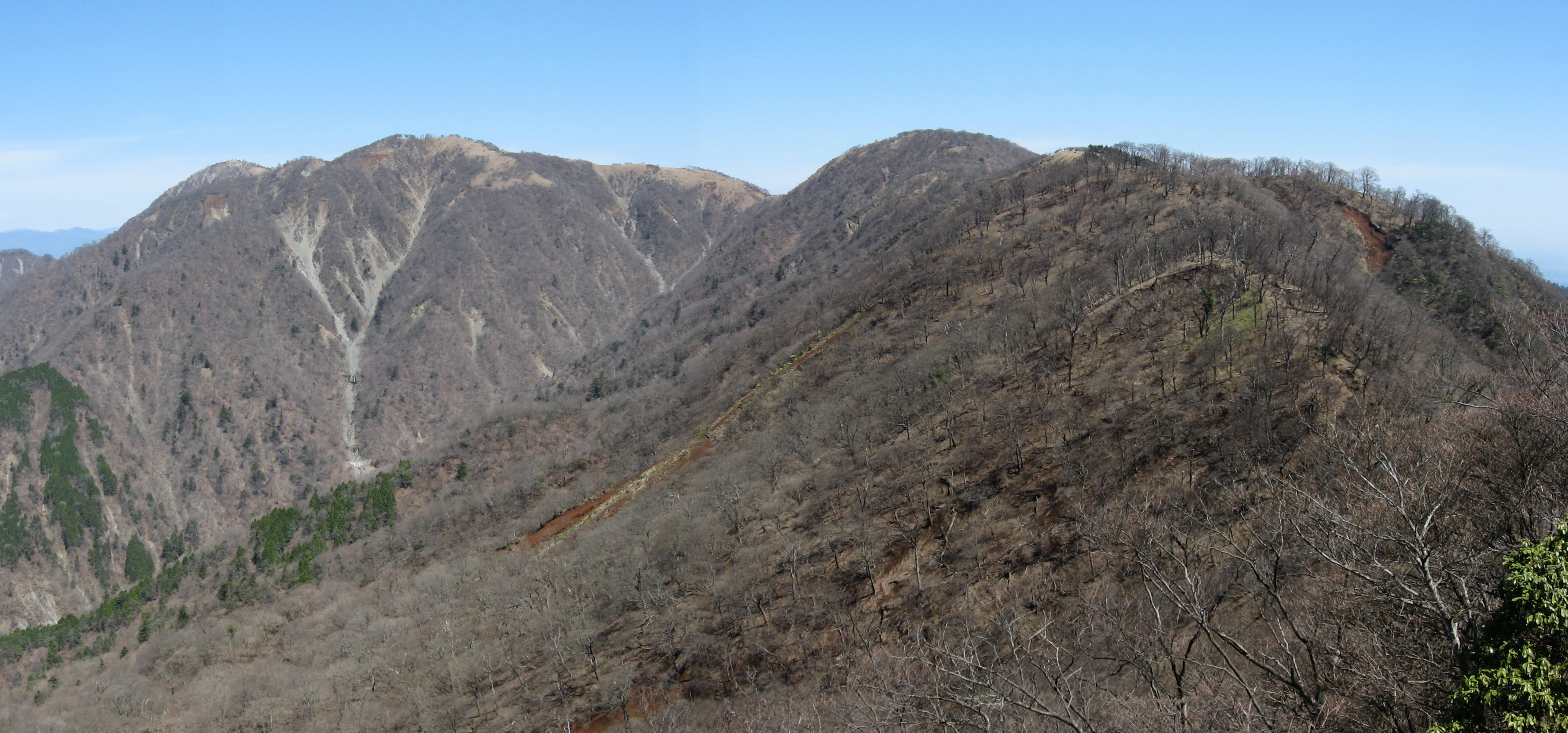 The Tanzawa shumyaku ridge seen from Mount To